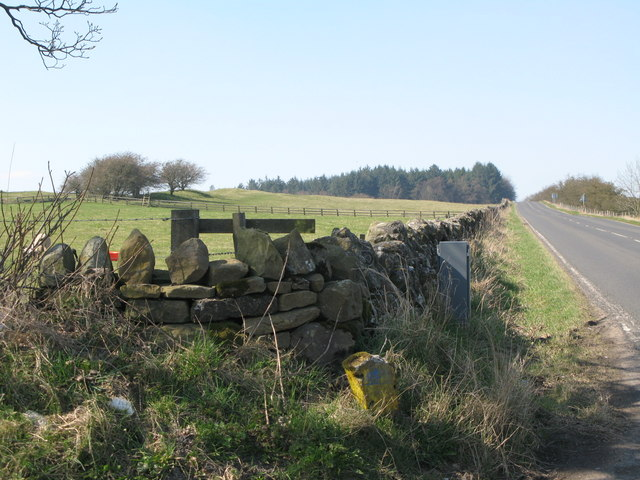 (The site of) Turret 22b, near to Halton, Northumberland, Great Britain. At the junction of the Military Road (B6318) and the lane south to NY9868 : Portgate (photo by Oliver Dixon).